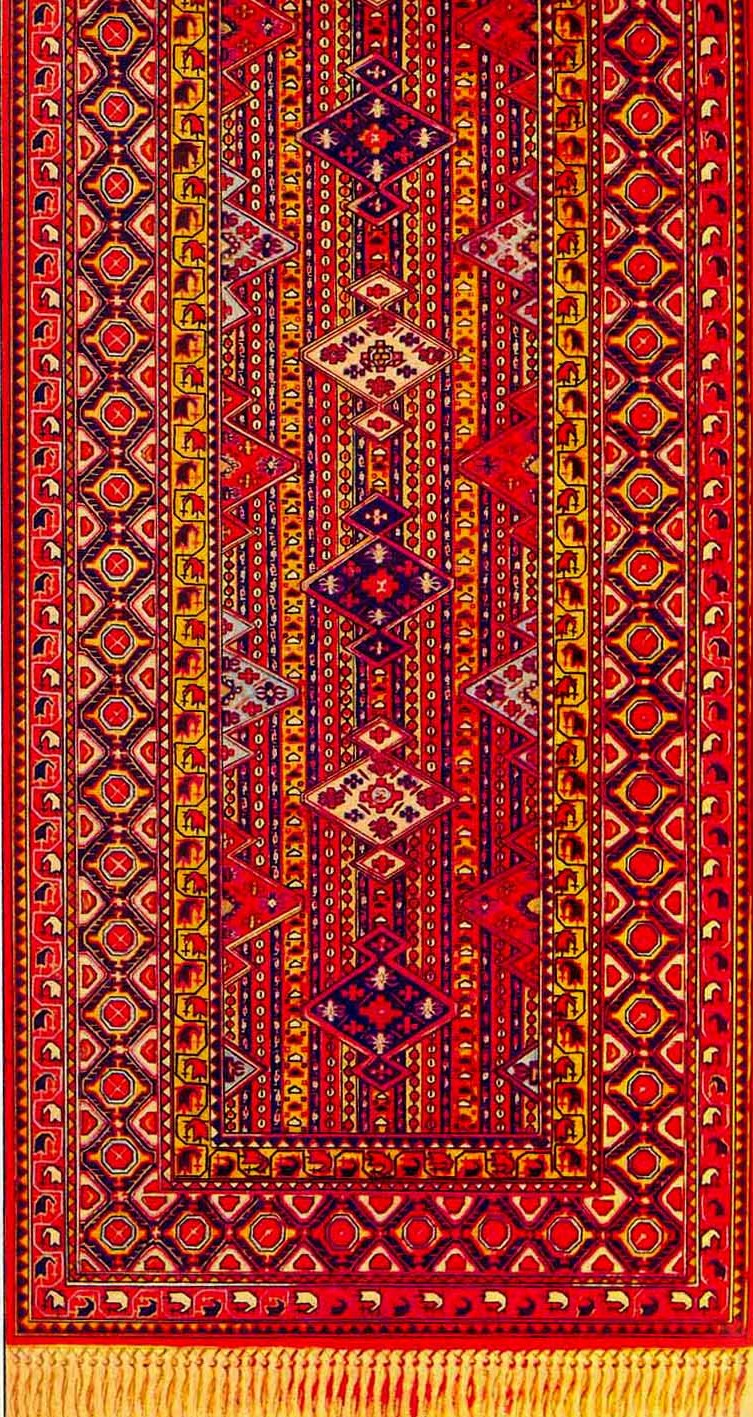 Nakhchivan rug, Karabakh school, XVIII c.